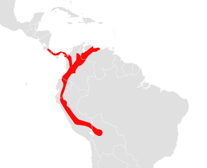 Distribution map of Anoura cultrata